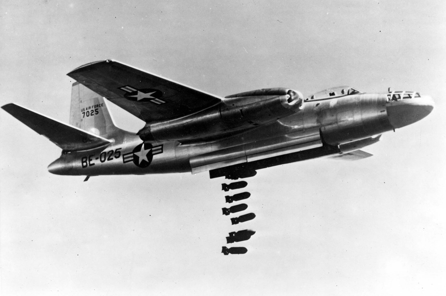 North American B-45A-5-NA